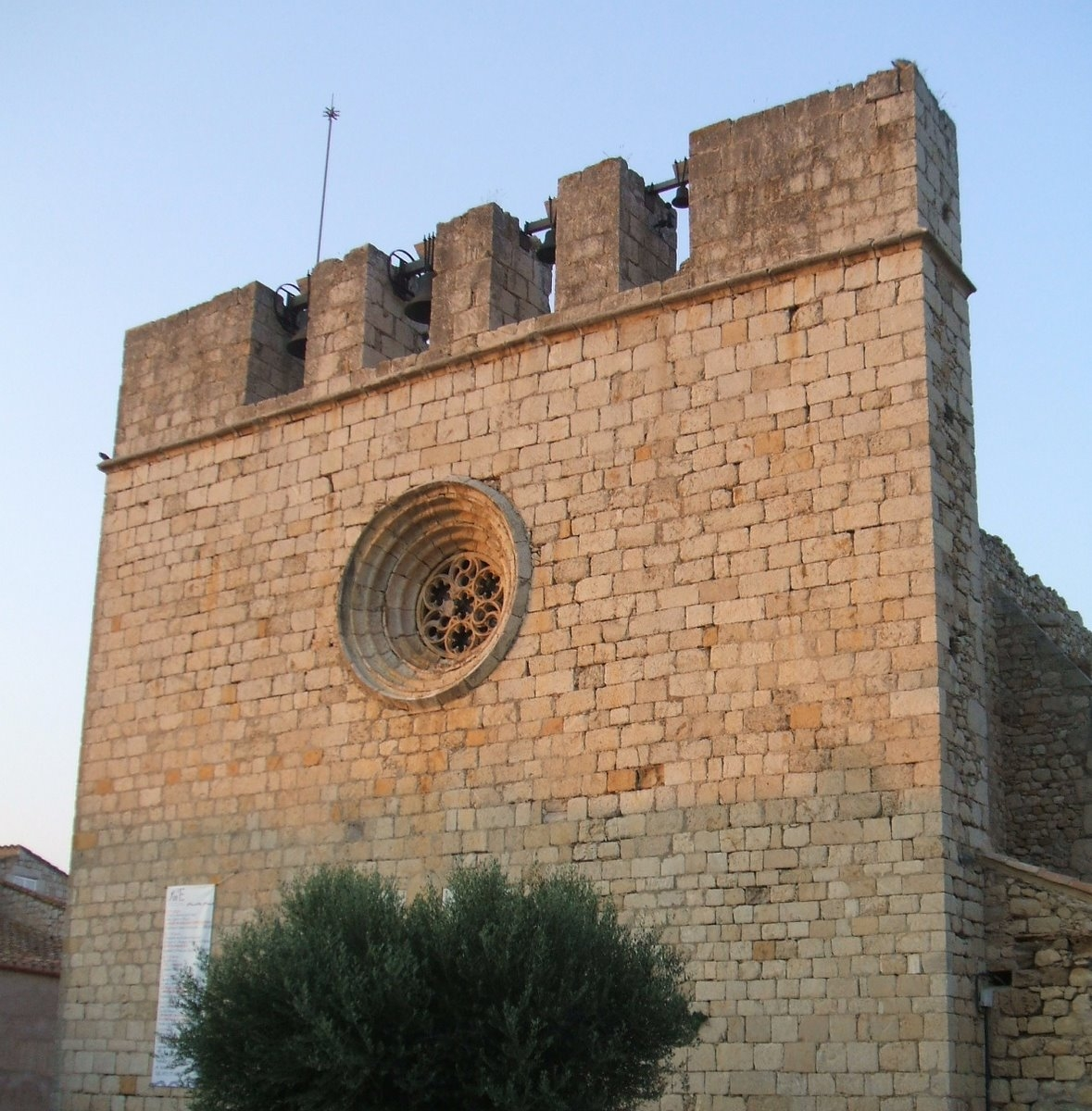 Sant Martí d'Empúries (Catalunya) : Saint-Martin church (rebuilt in the XVIth century)